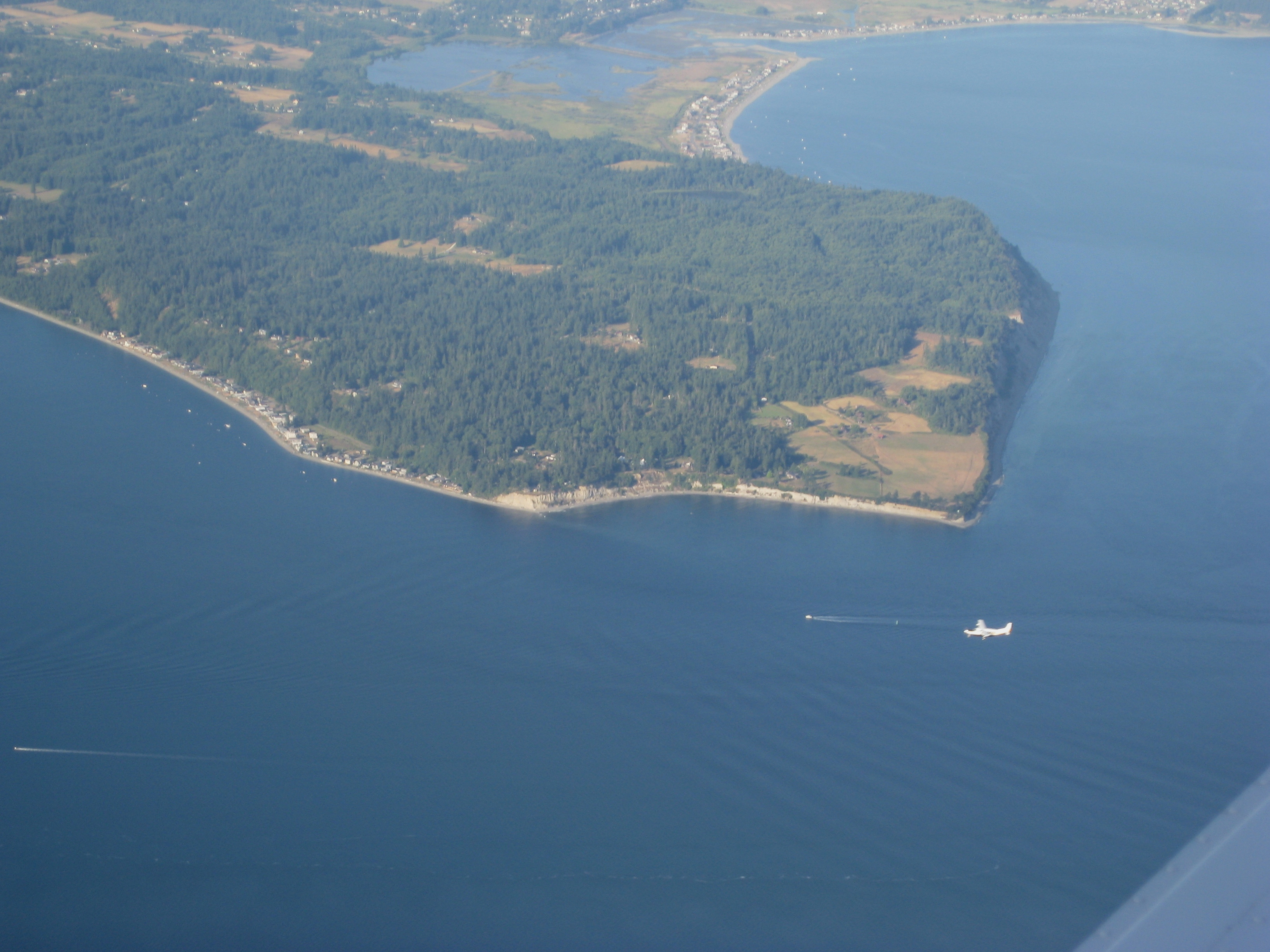 Useless Bay and Deer Lagoon, Whidbey Island, Washington